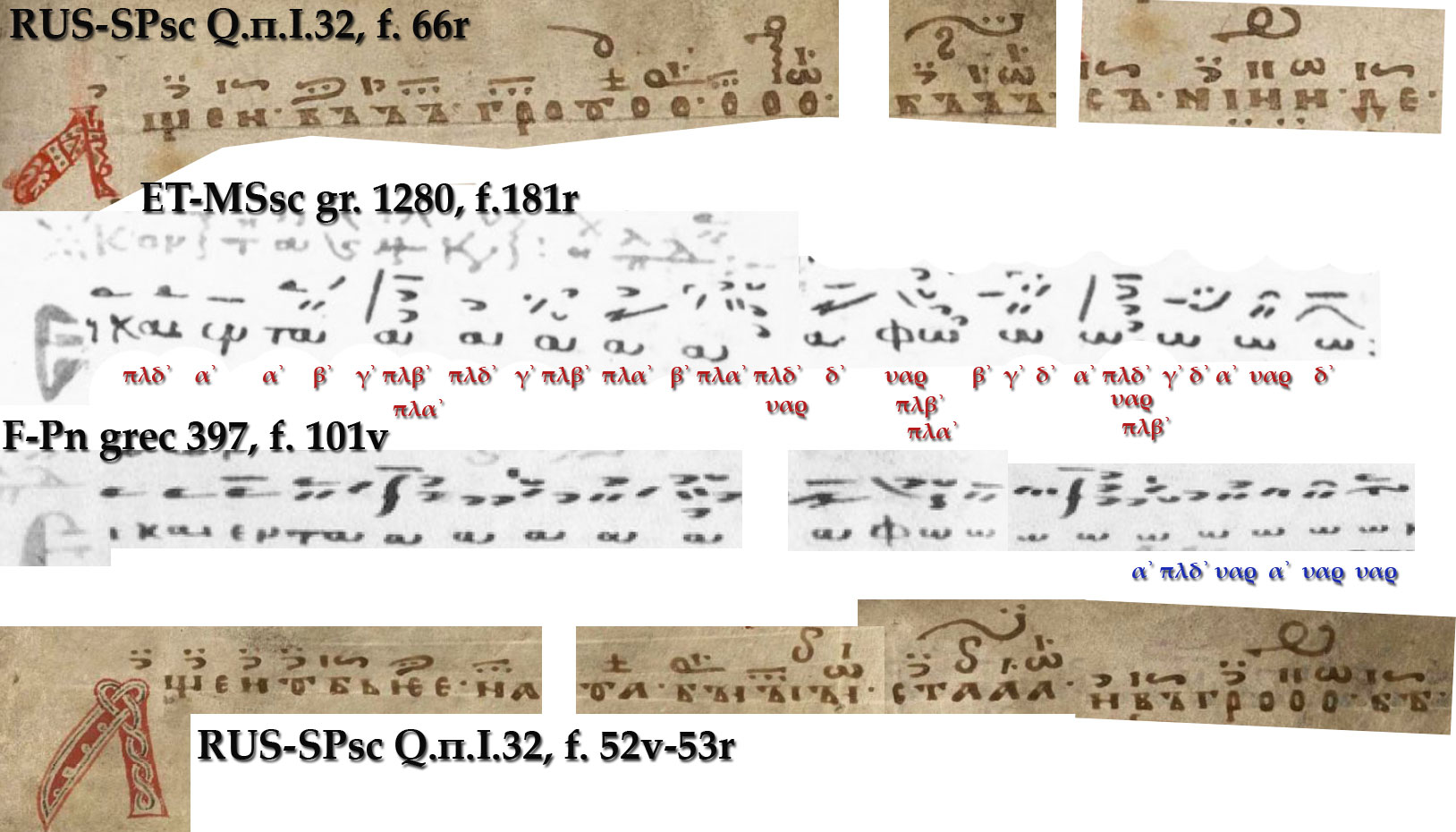 Comparison of the kontakion-idiomelon Εἰ καὶ ἐν τάφῳ in echos plagios tetartos / Аще и въ гробъ in glas 8 and its kondak-prosomoion Аще и убьѥна быста for Boris and Gleb (RUS-SPsc Q.п.I.32, F-Pn grec 397, ET-MSsc Sin. gr. 1280 of the 13th century)